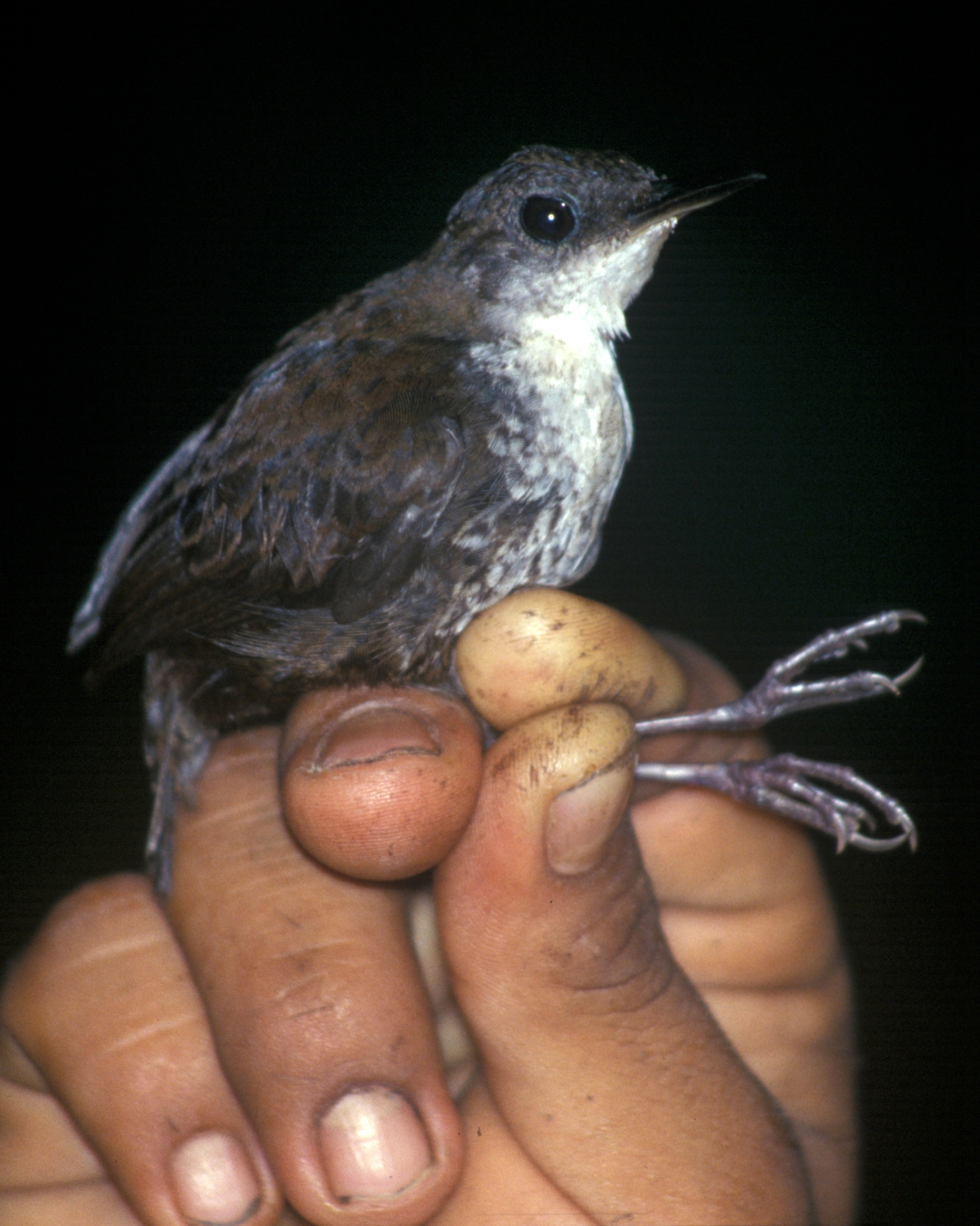 Southern Nightingale-Wren (Microcerculus marginatus) from Cordillera del Cóndor, Ecuador.